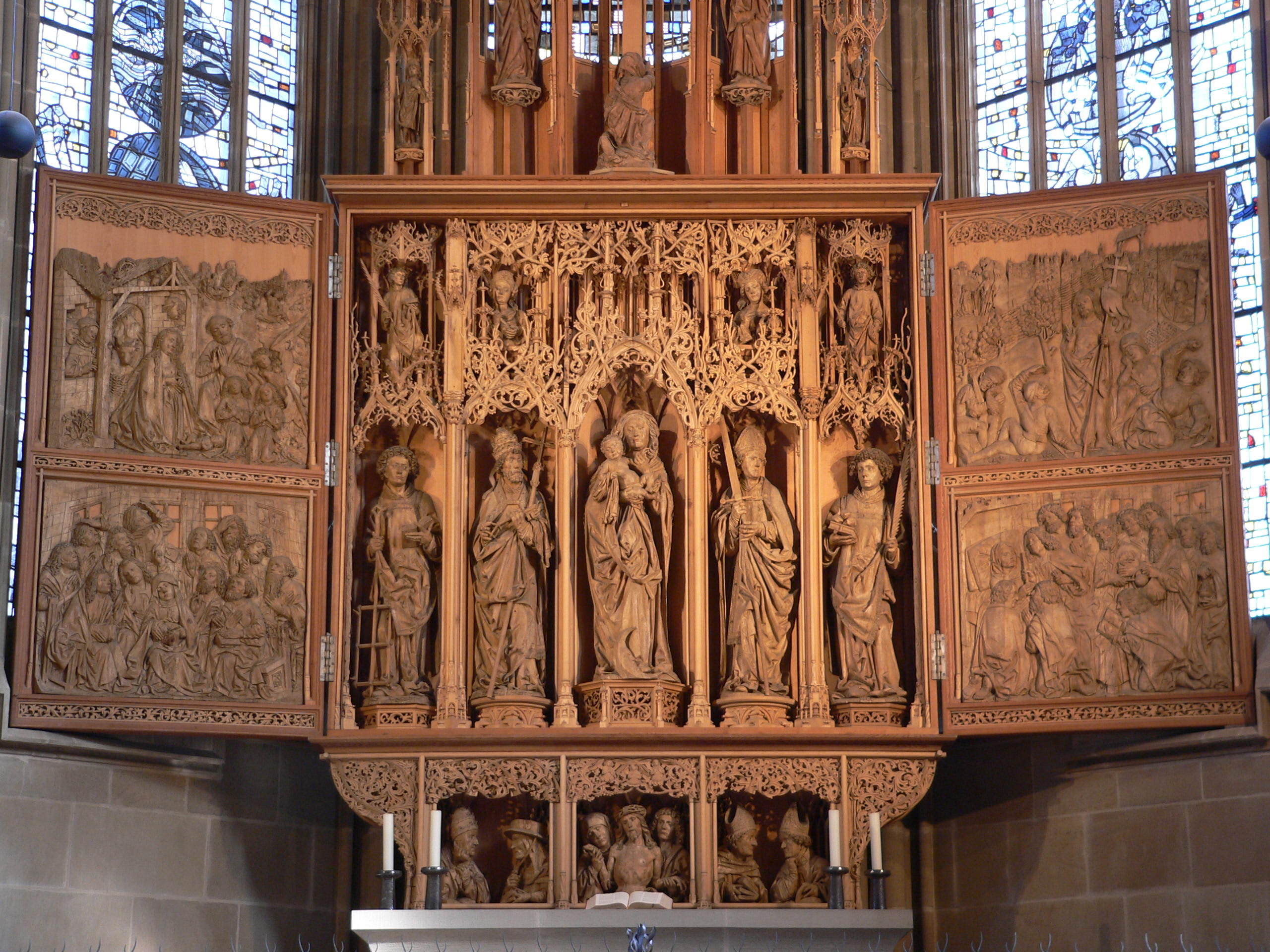 Altar by Hans Seyffer (Detail) in the Church Kilianskirche of Heilbronn - Germany